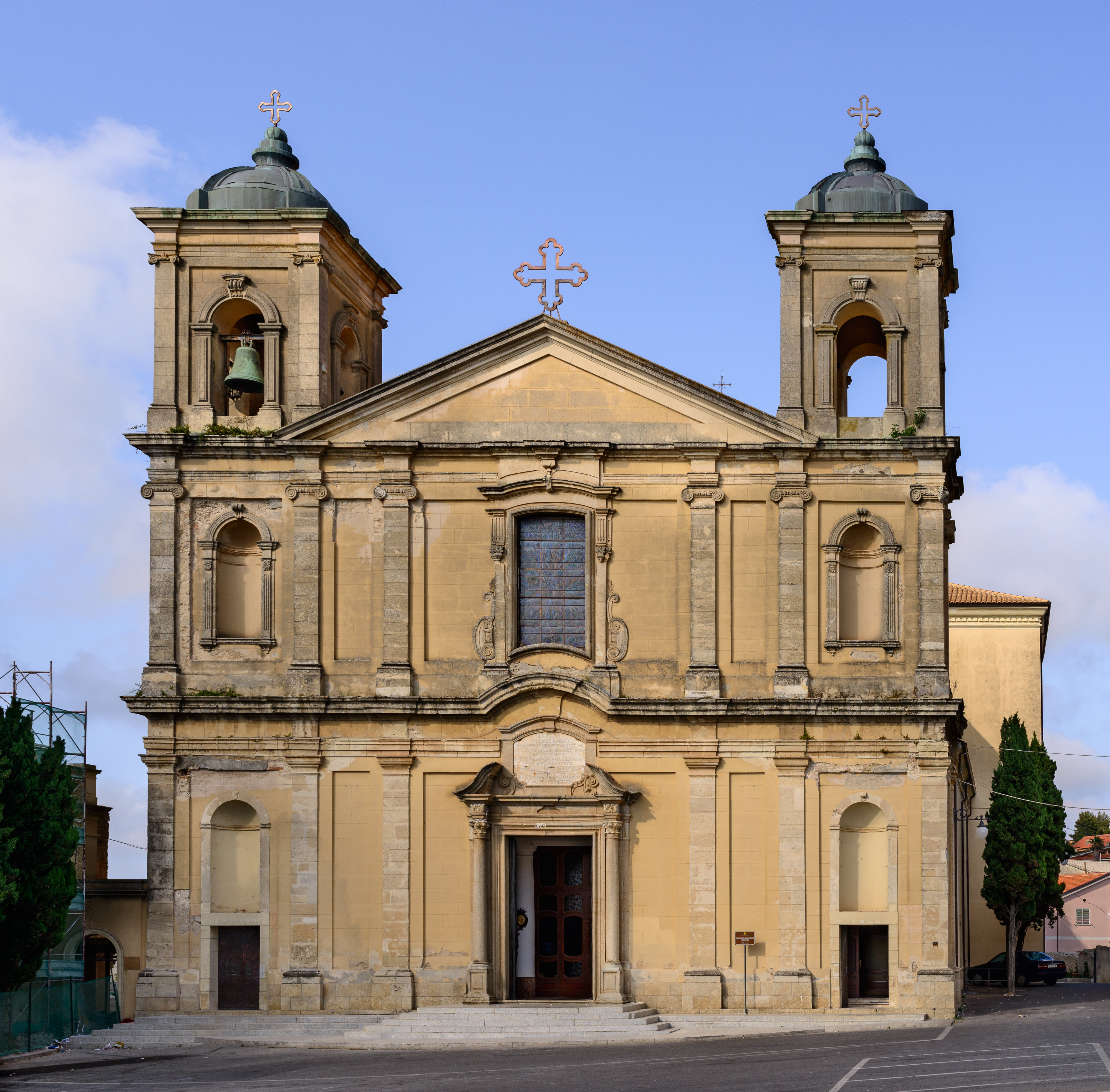 Duomo Santa Maria Maggiore, Vibo Valentia, Calabria, Italy.